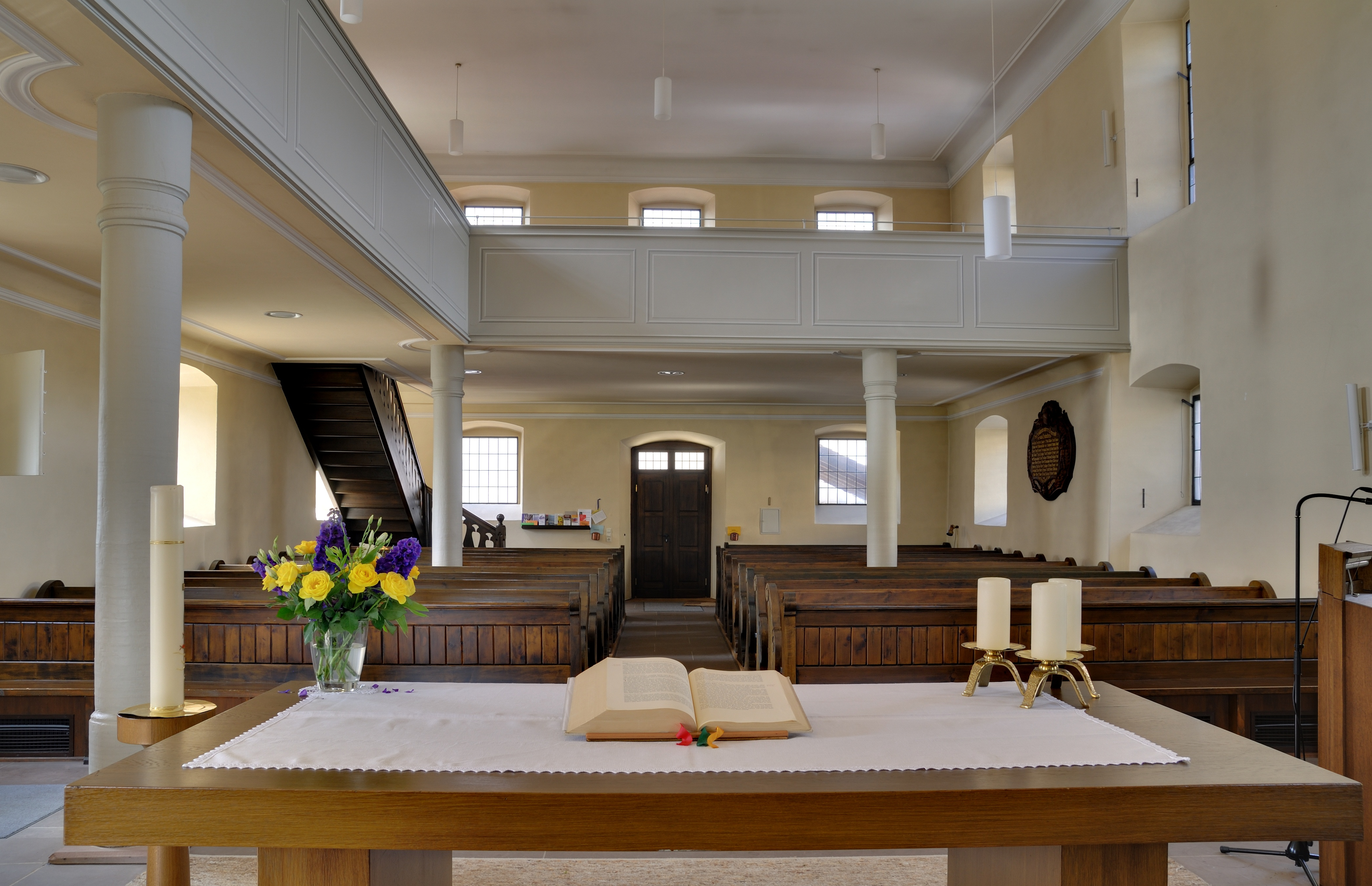 Hasel: Protestant Church